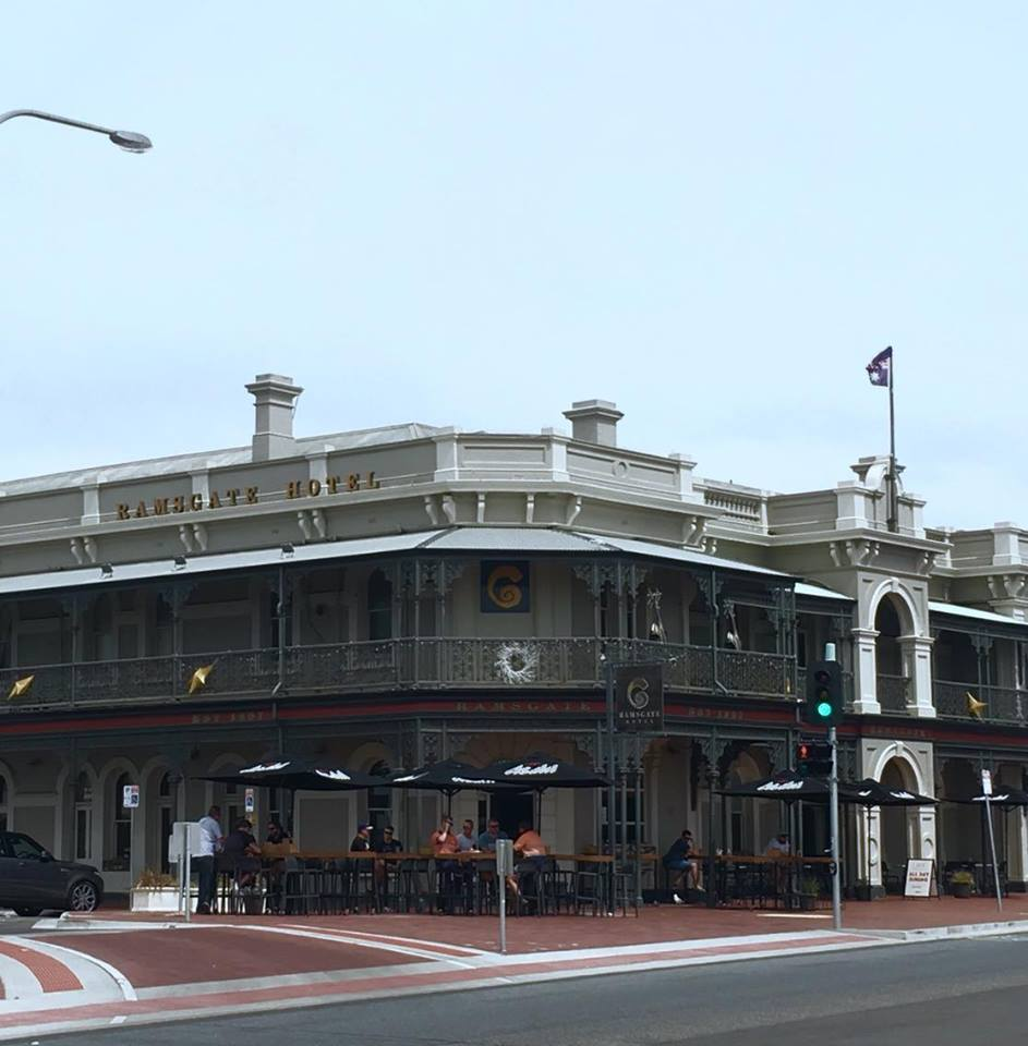 Ramsgate Hotel, Henley Square, Adelaide, South Australia. December 2016.